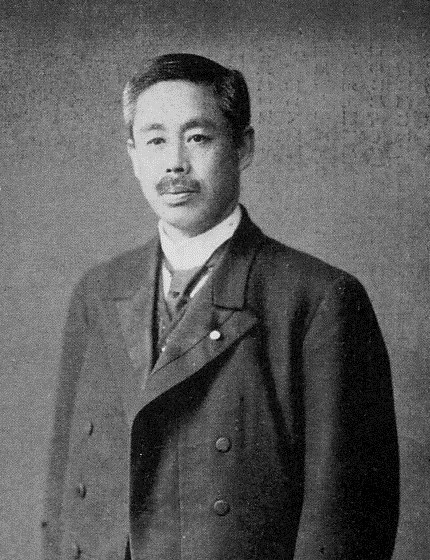 Motohiro Nijo